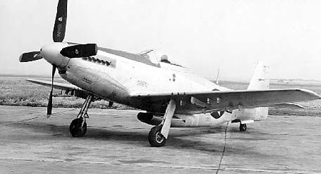 North American P-51H